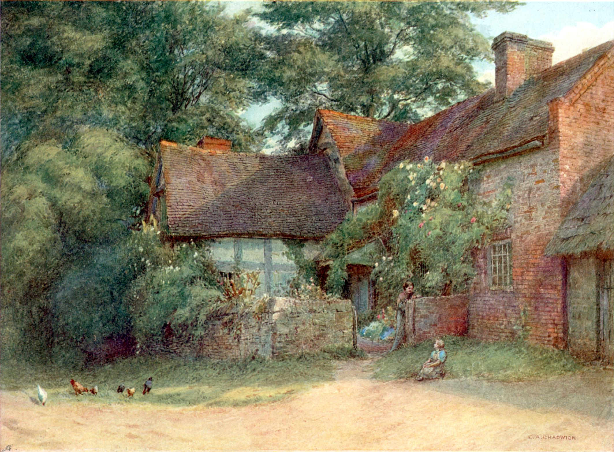 Suckley, Worcestershire. From a water-colour drawing by E. A. Chadwick. A brick cottage, with a half-timbered part. A girl kneels and another person, probably a child, seems to be talking with her. Lots of trees. This cottage was called The Chantry and it stood in Church Lane, Suckley, opposite the village primary school. The thatched building to the right of the cottage was a blacksmith's shop and Suckley Church is behind it. At the time of this painting The Chantry was occupied by the Addis sisters. The Chantry fell derelict for many years and was finally demolished in the 1980's for the construction of a modern bungalow.